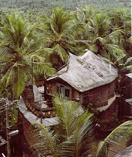 Example of architecture by Laurie Baker